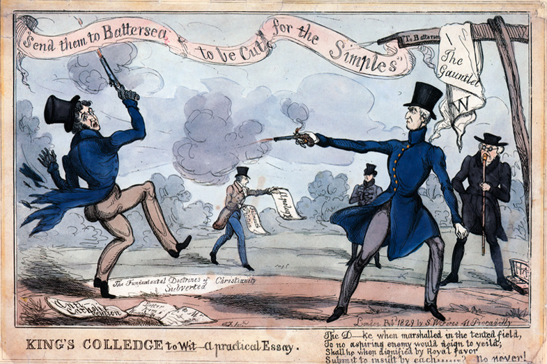 King’s Colledge [sic] to Wit: a practical Essay. London: SW Fores.